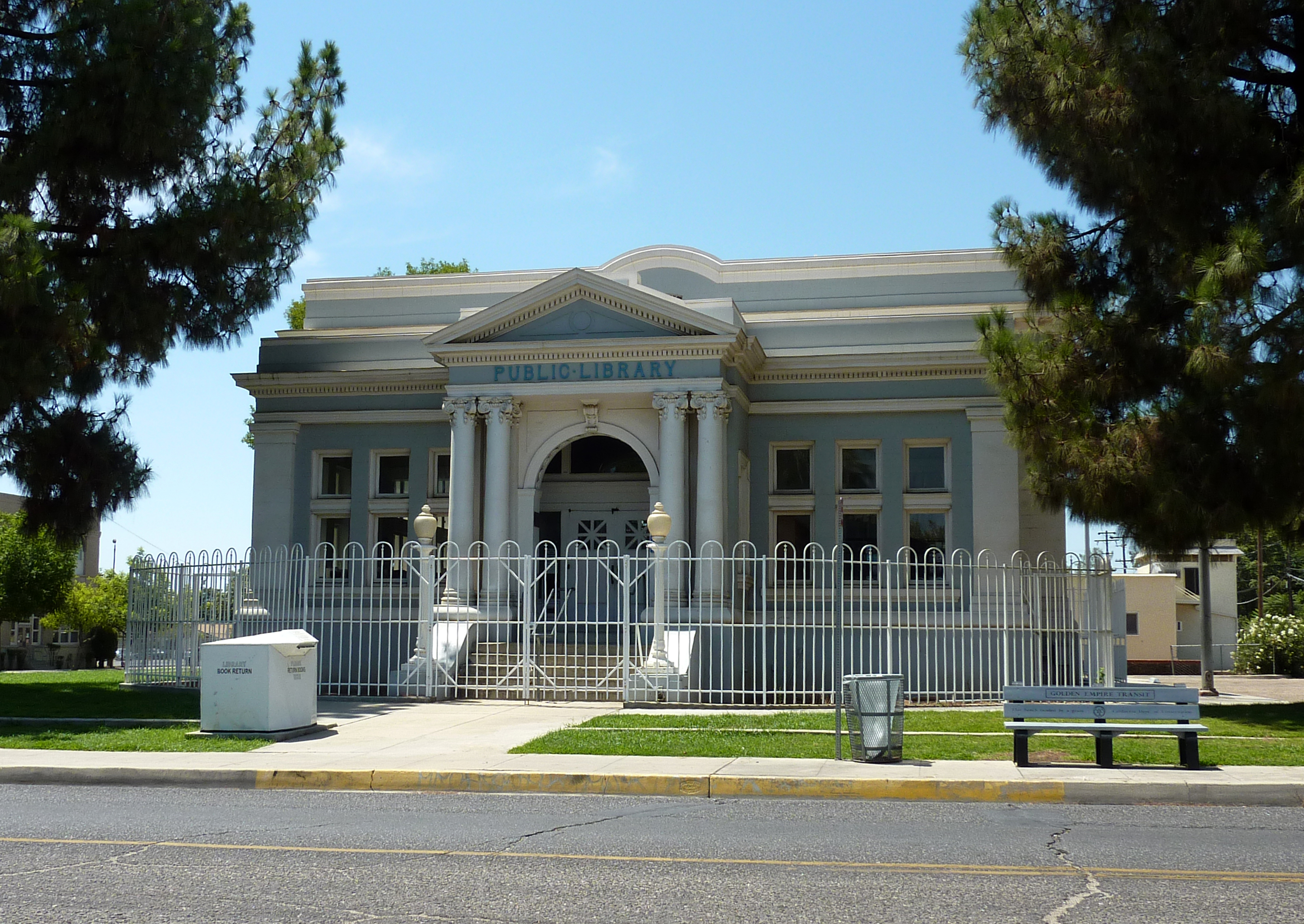 Kern Branch, Beale Memorial Library (Baker Street Branch Library) — part of of the Kern County Library system, located in Bakersfield, California.